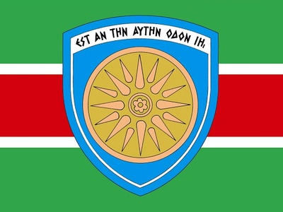 Hellenic_1st_Army colours